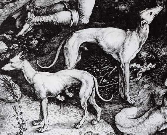 Detail from Albrecht Dürer's Saint Eustache